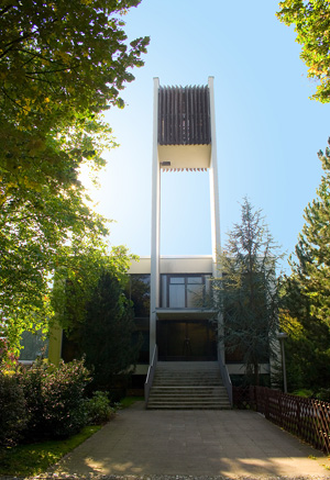 Martinus-Church (in honour Martin Luther) Berlin-Tegel